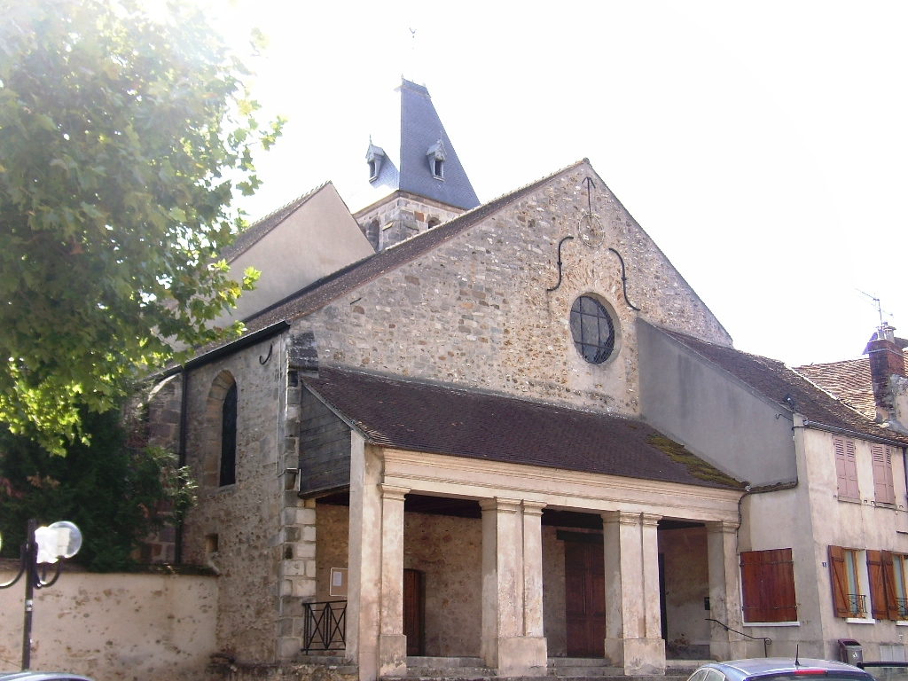 Saulx-les-Chartreux church